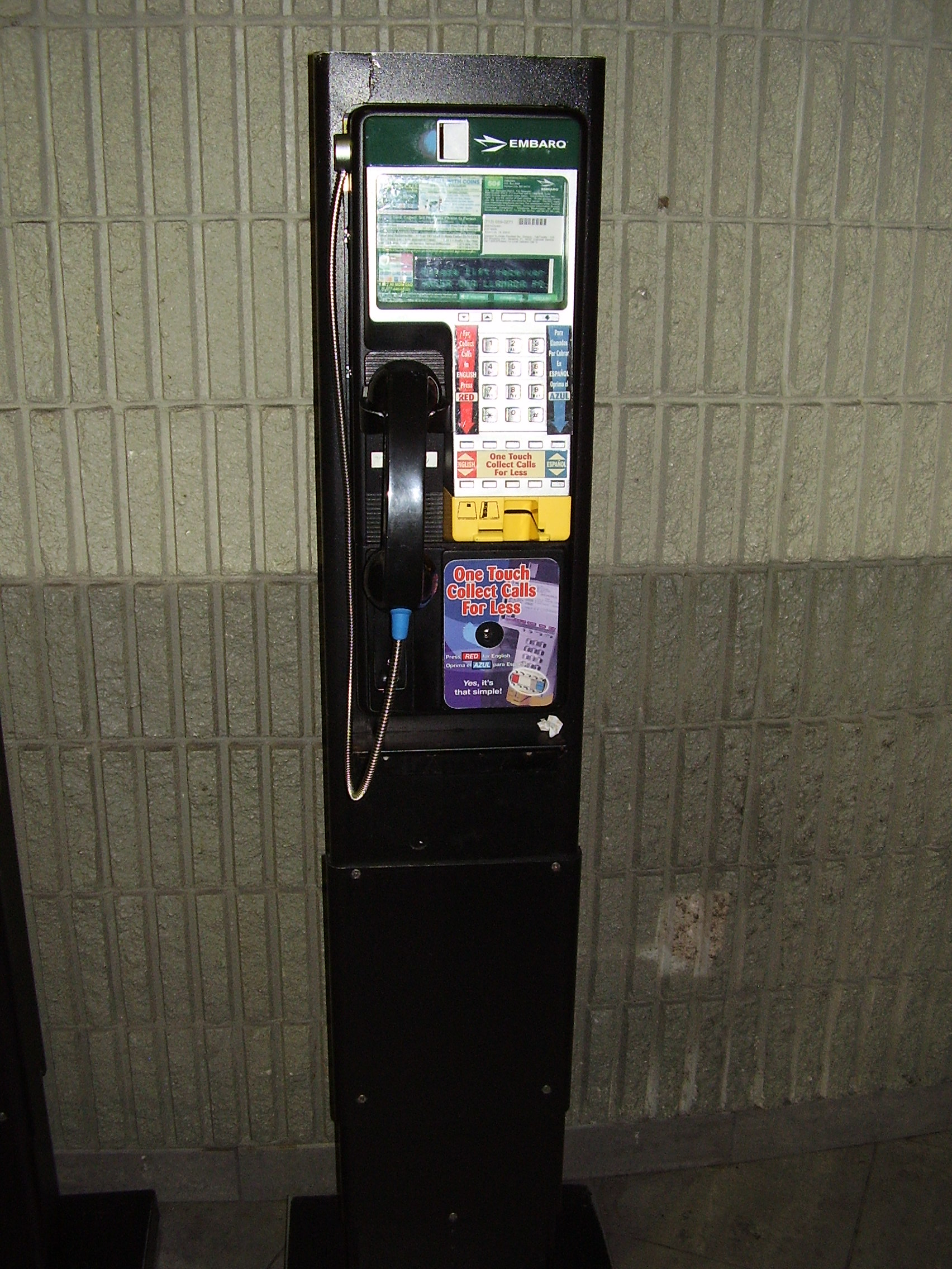 Embraq pay phone (Nortel Millenium payhone) at the Houston Greyhound Station